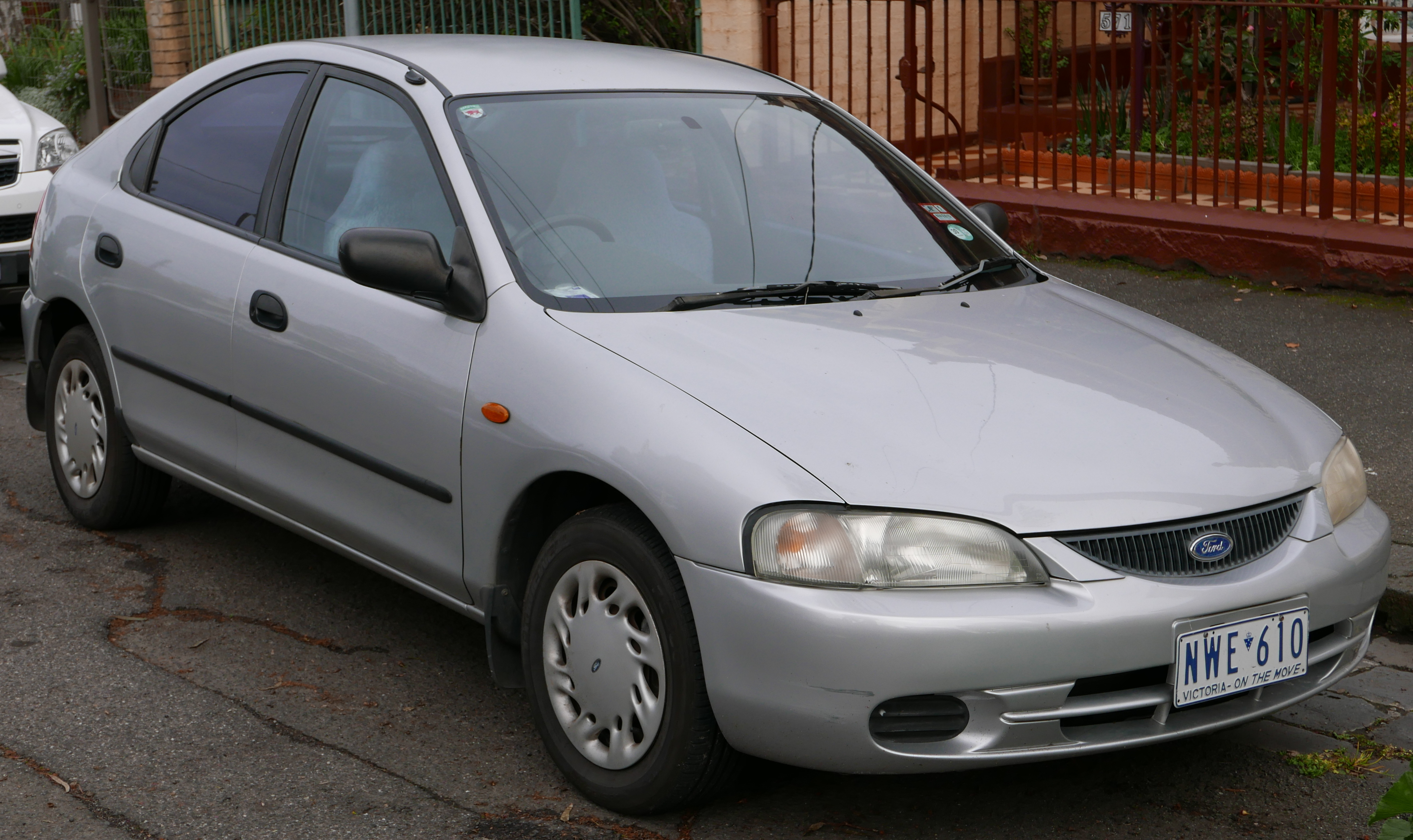 1995 Ford Laser (KJ) Liata LXi 5-door hatchback. Photographed in Carlton North, Victoria, Australia. Vehicle registration enquiry results Jurisdiction Victoria Registration NWE610 Chassis code JC0AAASGPMSU36086 Engine code BP980166 Compliance date 1995-11 Year of manufacture 1996 (not a typo)